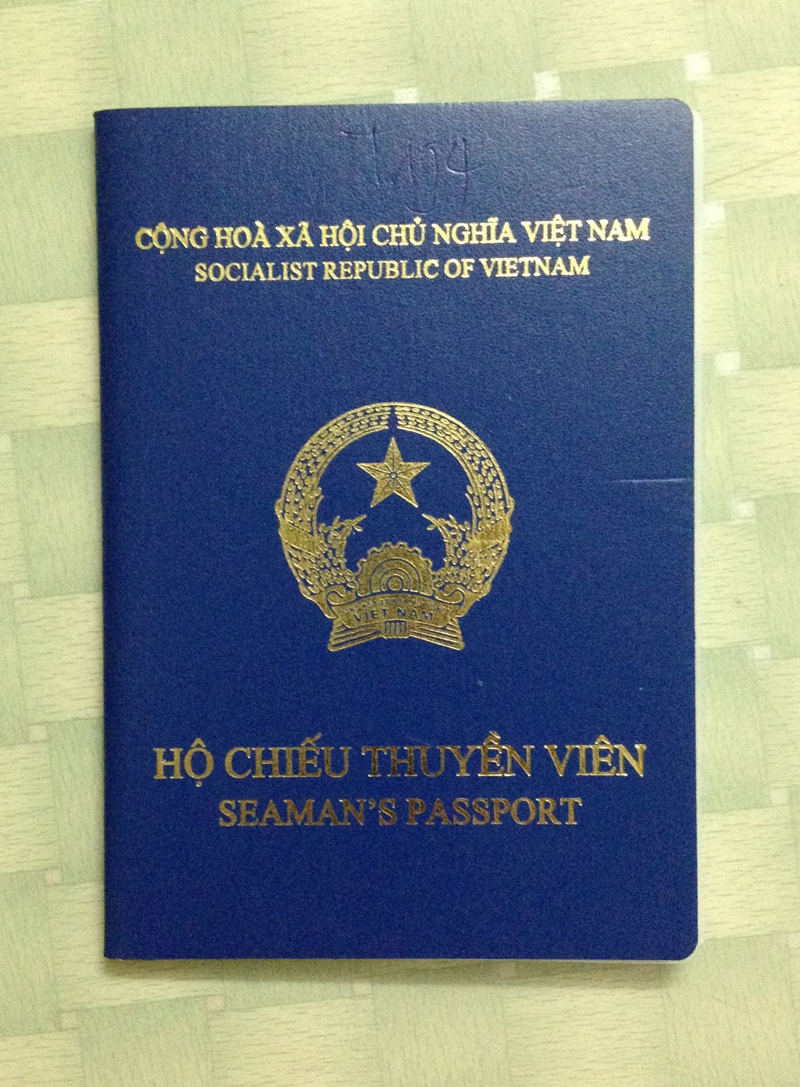 Vietnamese seaman's passport issued to Vietnamese citizen working on international sea routes